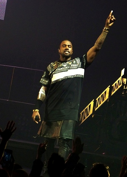 Kanye West performing at Staples Center on December 11, 2011 in Los Angeles on the Watch the Throne Tour.